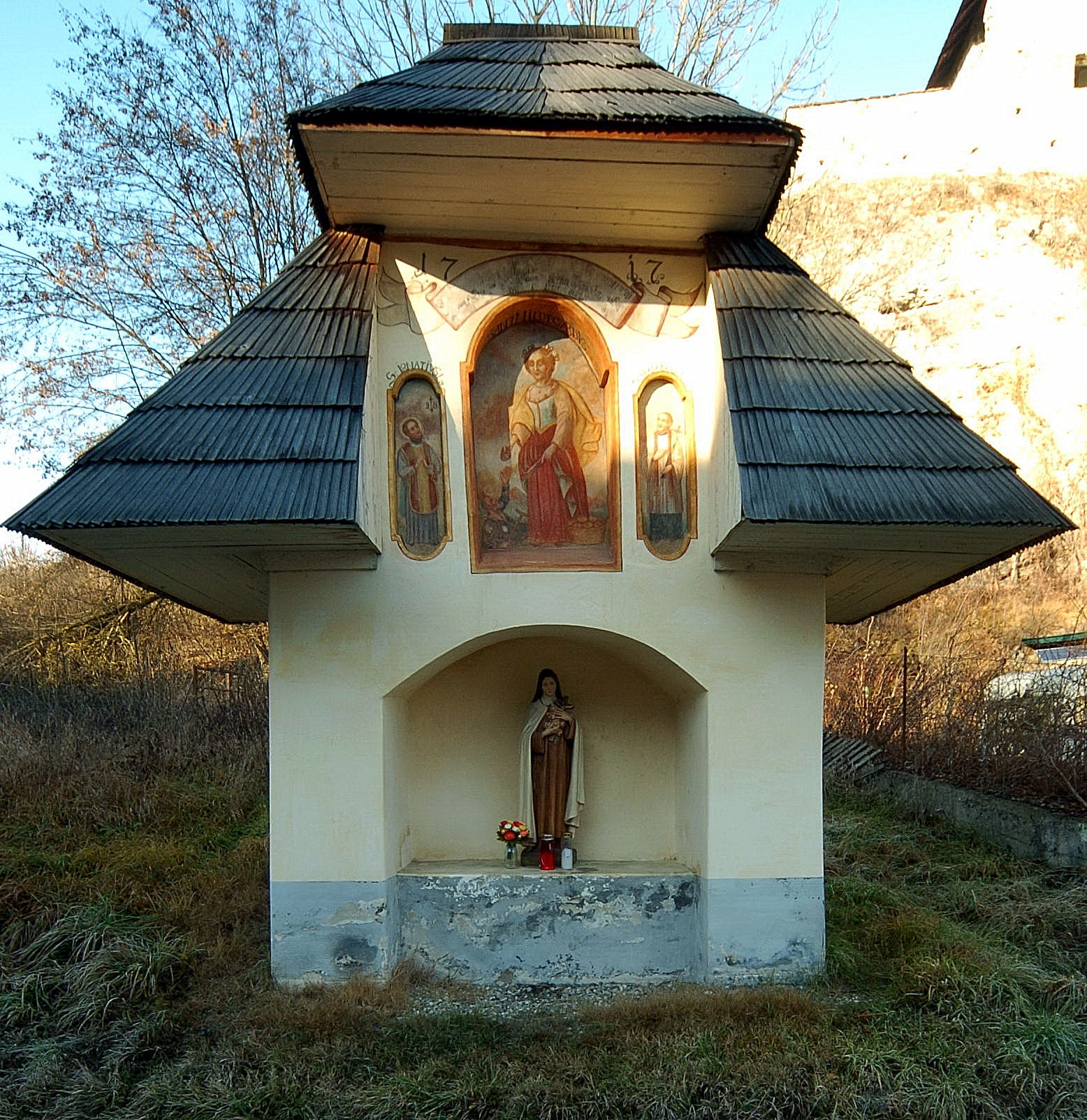 Big Hildegard wayside shrine below the church-rock at Stein im Jauntal in the community Saint Kanzian, district of Voelkermarkt, Carinthia, Austria